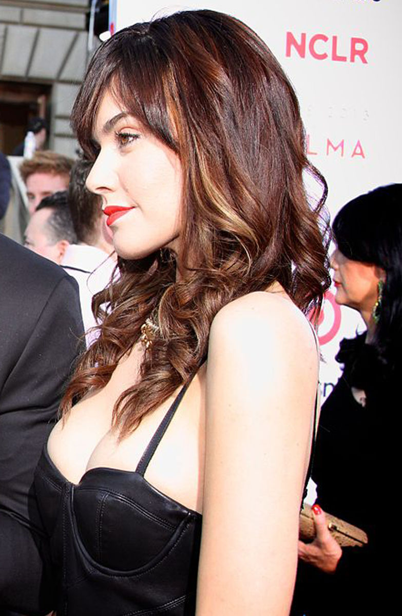 Mexican actress Ángelica Celaya